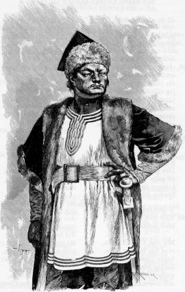 Attila the Hun, also known as Atli, in an illustration to the Poetic Edda.